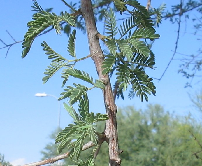 Acacia occidentalis foliage bark Botanical Gardens at Glendale Public Library (West Edge of Phoenix, Arizona, USA)